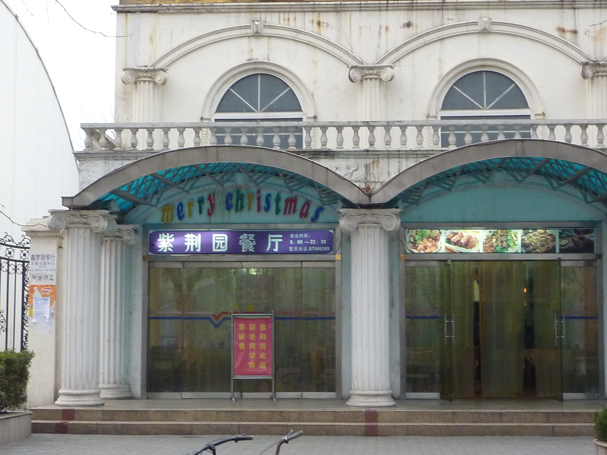 The sign says, "Merry Christmas!", in English only. (Hmm... I wonder what percentage of the student body there are Christians...)